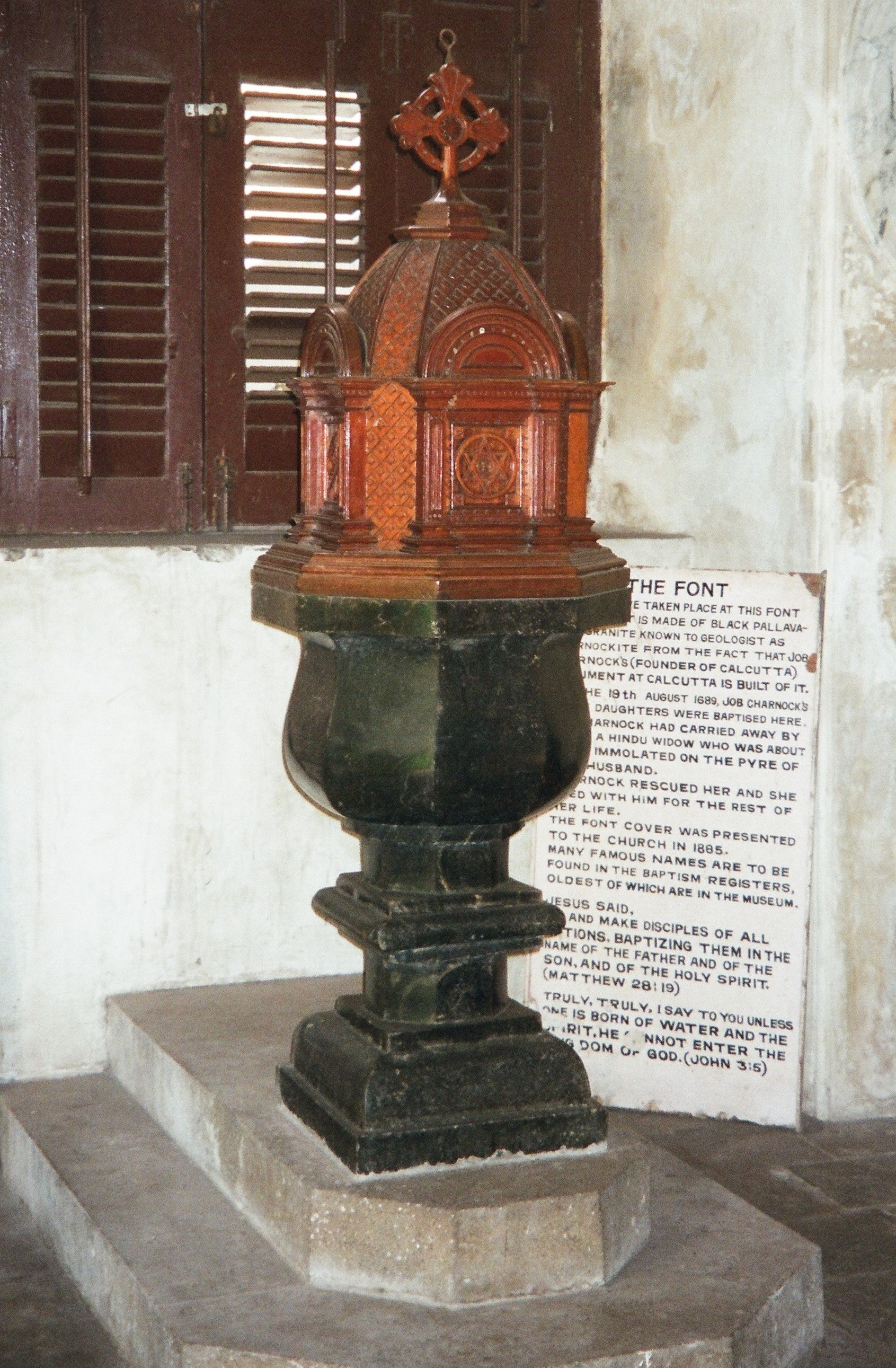 Baptismal Font made of Charnockite rock is located in St. Mary's Church in Fort St. George. the Font